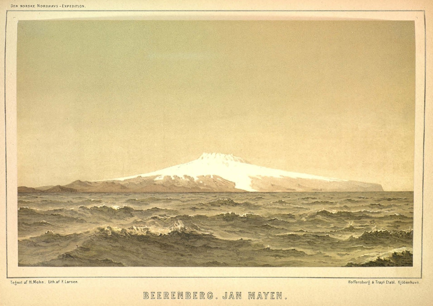 Beerenberg, Jan Mayen. Lithography based on a watercolour painting of the norwegian meteorologist Henrik Mohn (1835-1916).